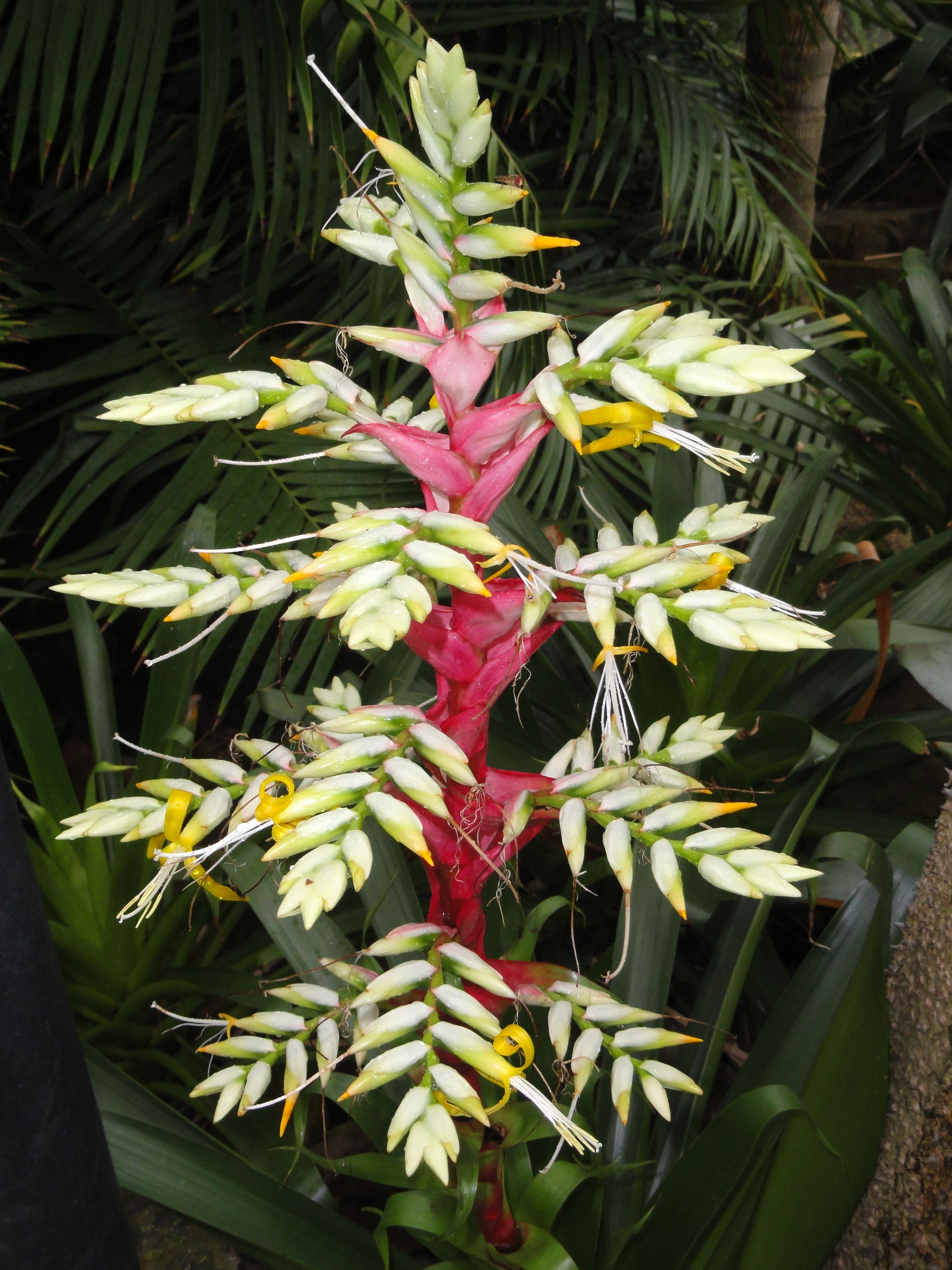 Botanical specimen in the Palmengarten, Frankfurt am Main, Germany.